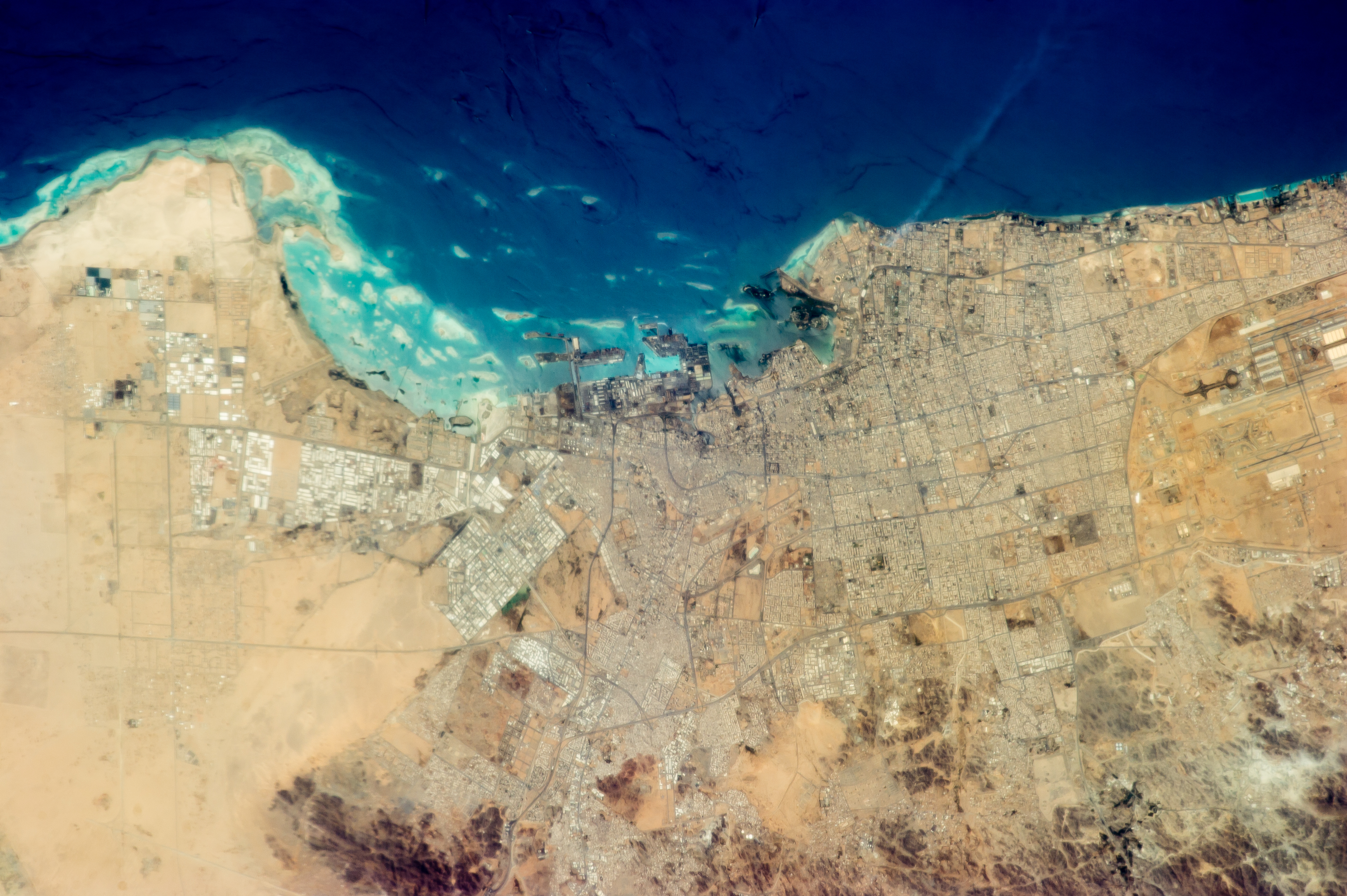 "Jeddah, Saudi Arabia. 3 million people on the Red Sea. You can see the road that leads to Mecca." Caption by astronaut Chris Hadfield on board the International Space Station. ISS Crew Earth Observations: ISS034-E-055554 Identification Mission ISS034 (Expedition 34) Roll E Frame 055554 Camera Camera Focal Length 400 mm Camera NIKON D3S Quality Percentage of Cloud Cover 0-10% Nadir What is Nadir? Date 2013-02-26 Time 08:15:59